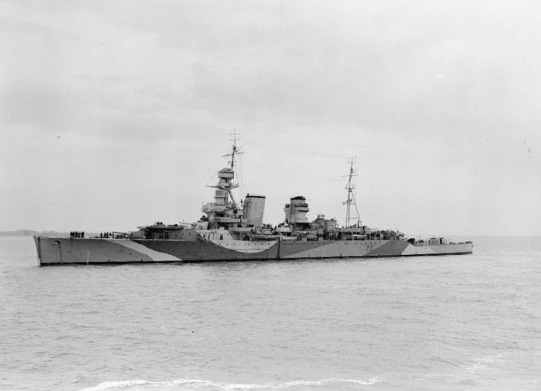 HMS HAWKINS at anchor